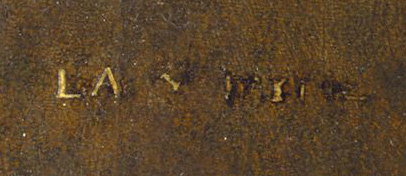 Detail of the Streatham portrait, showing the engraving